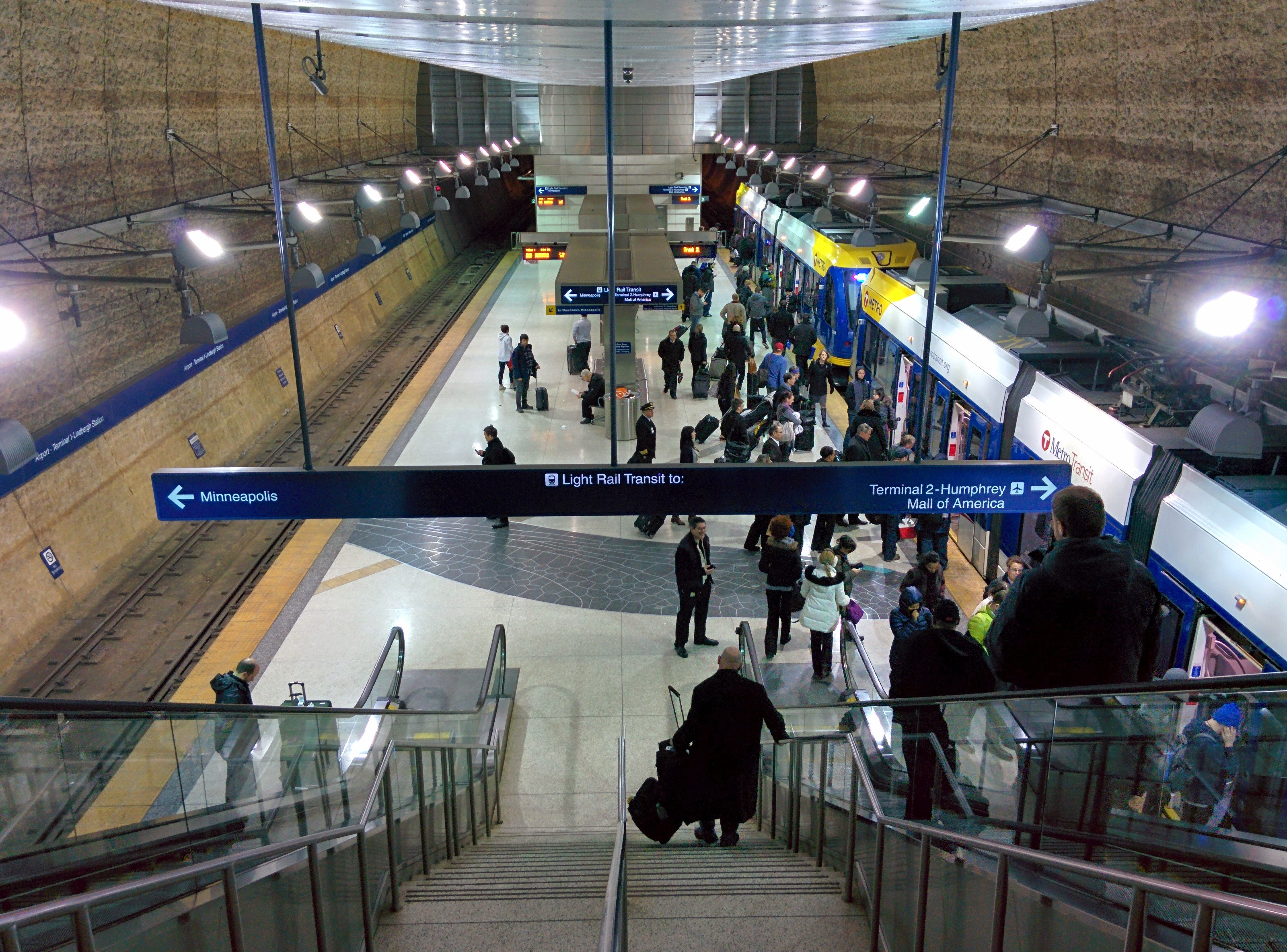 Minneapolis-Saint Paul International Airport - METRO Blue Line